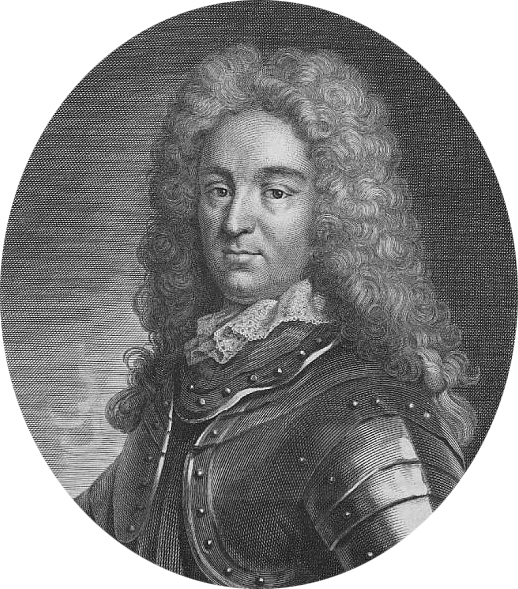 Paul de Rapin de Thoyras engraved portrait frontispiece from the History of England, John and Paul Knapton, 1743